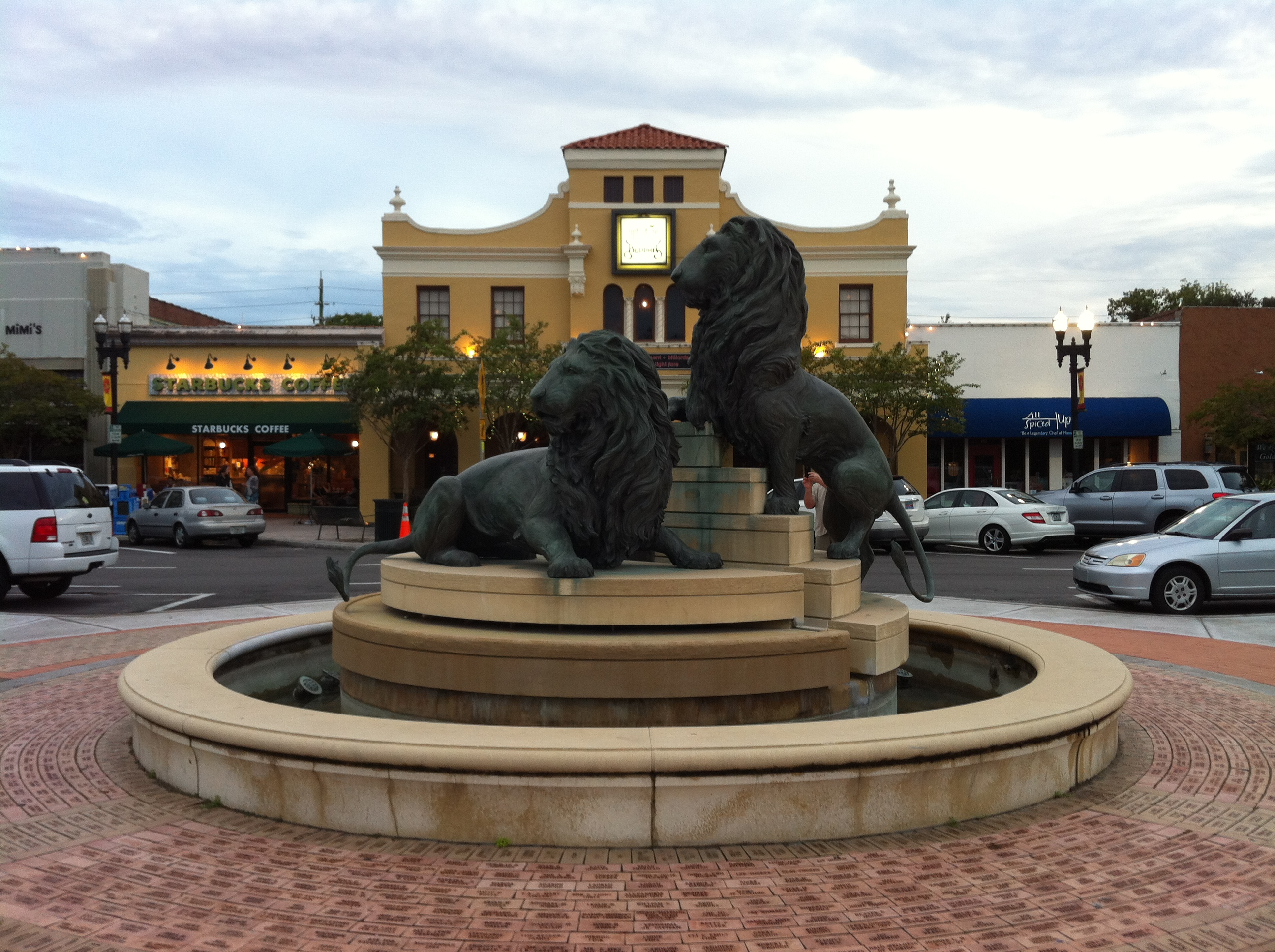 San Marco Square Lions statue, Jacksonville